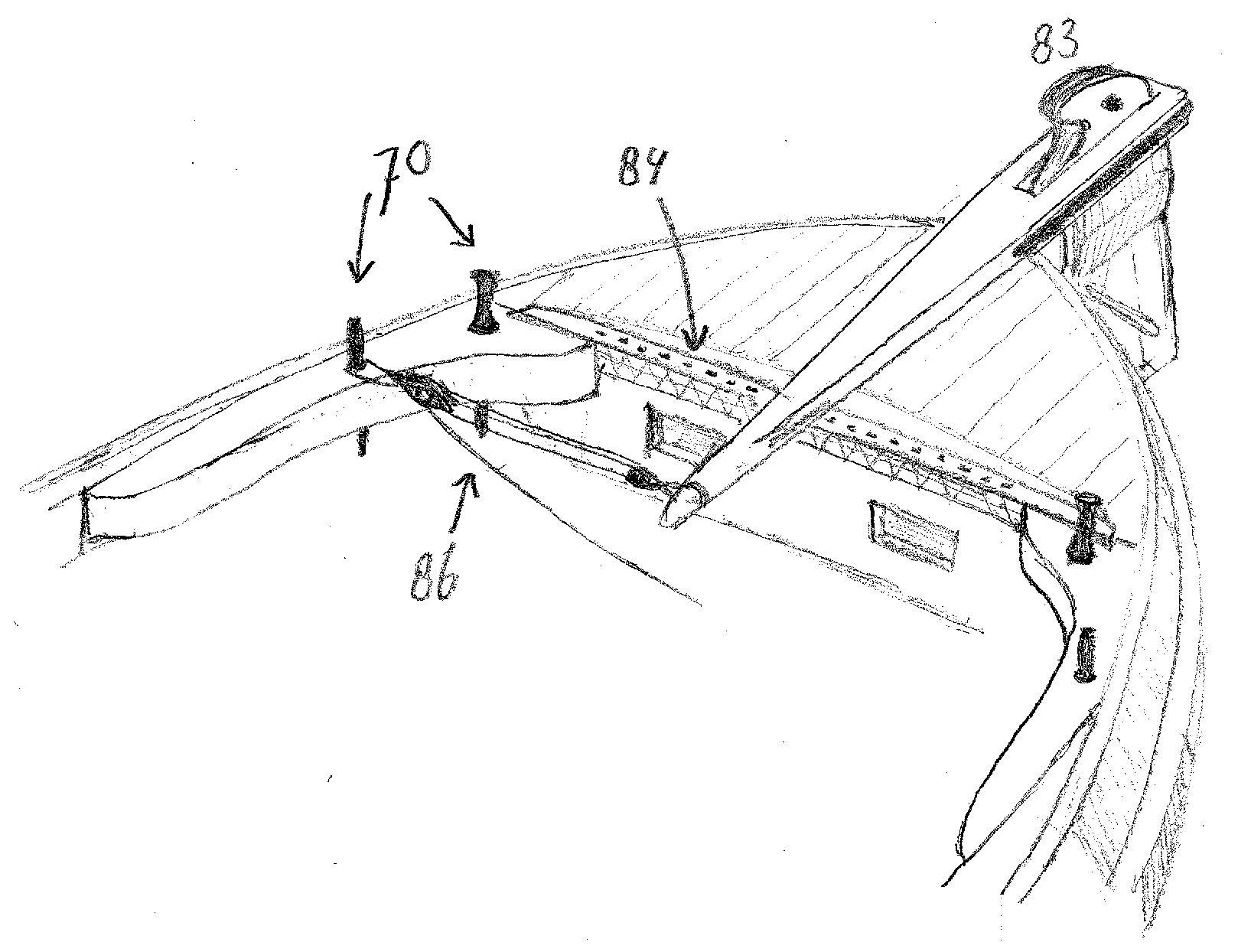 Aft layout Volendammer Kwak (traditional dutch fishing vessel) Pencil drawing, 2003 Author: Henk de Boer